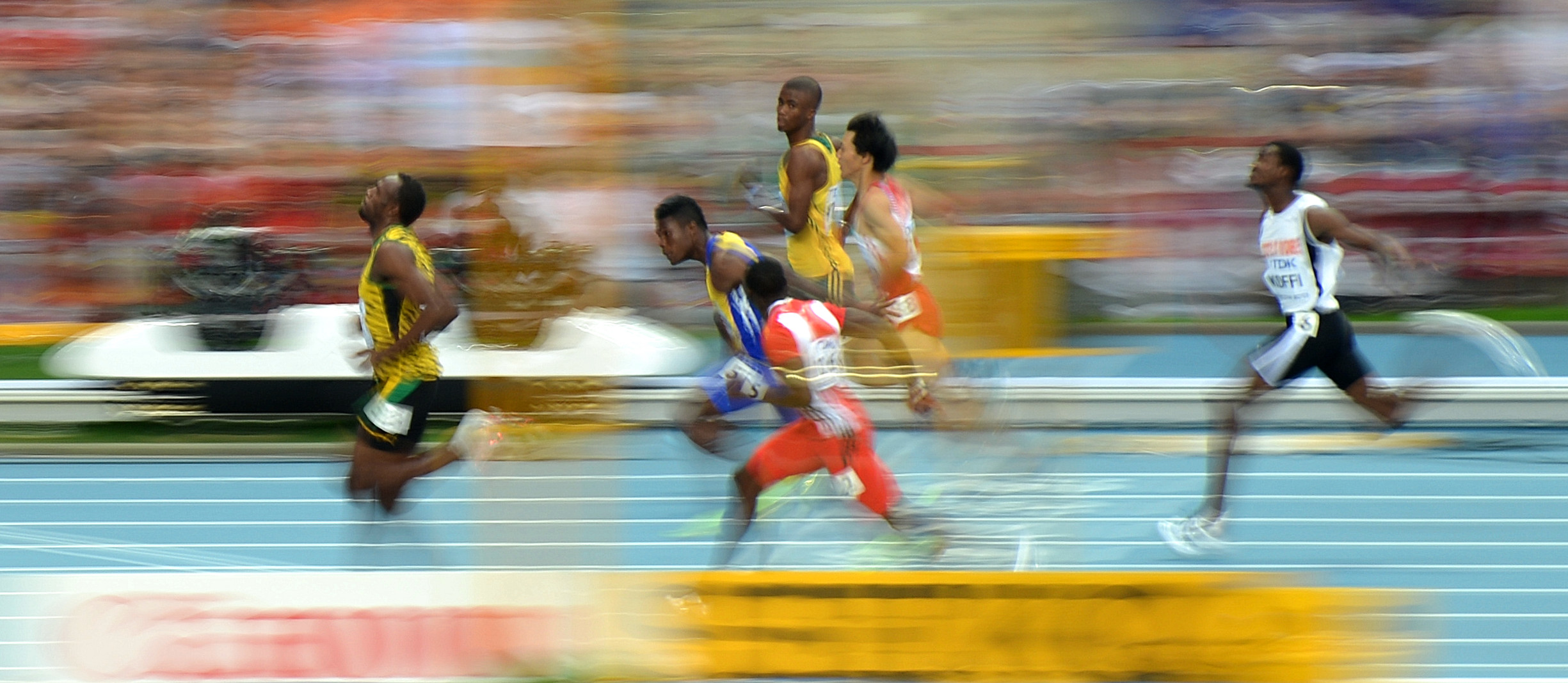 Usain Bolt (Jamaica) during the 100 m heat of the 14th IAAF World Championships in Athletics in Moscow, Russia